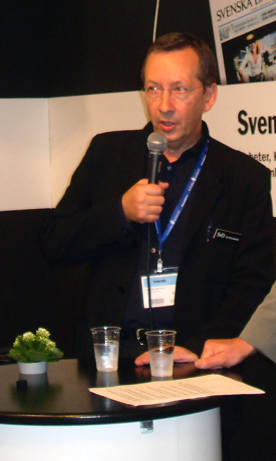 The Swedish journalist Carl Otto Werkelid at Gothenburg book fair 2008